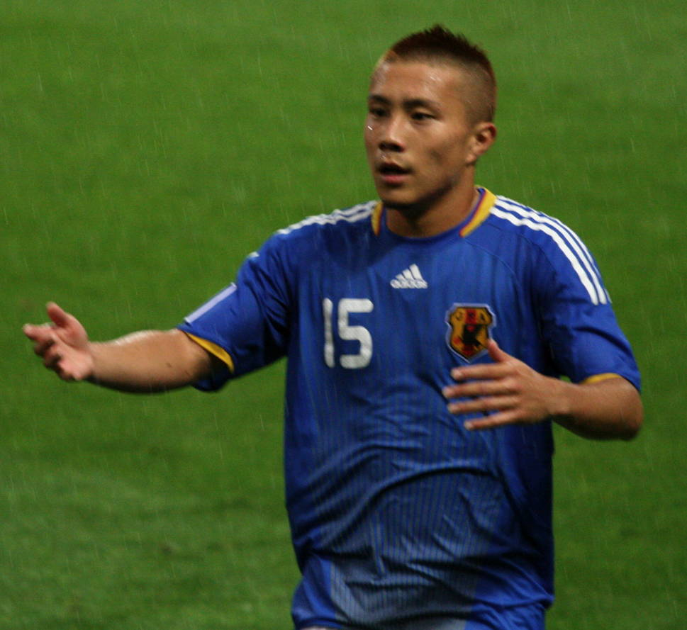 Michihiro Yasuda, during Japan's world cup qualifier against Bahrain on June 22, 2008